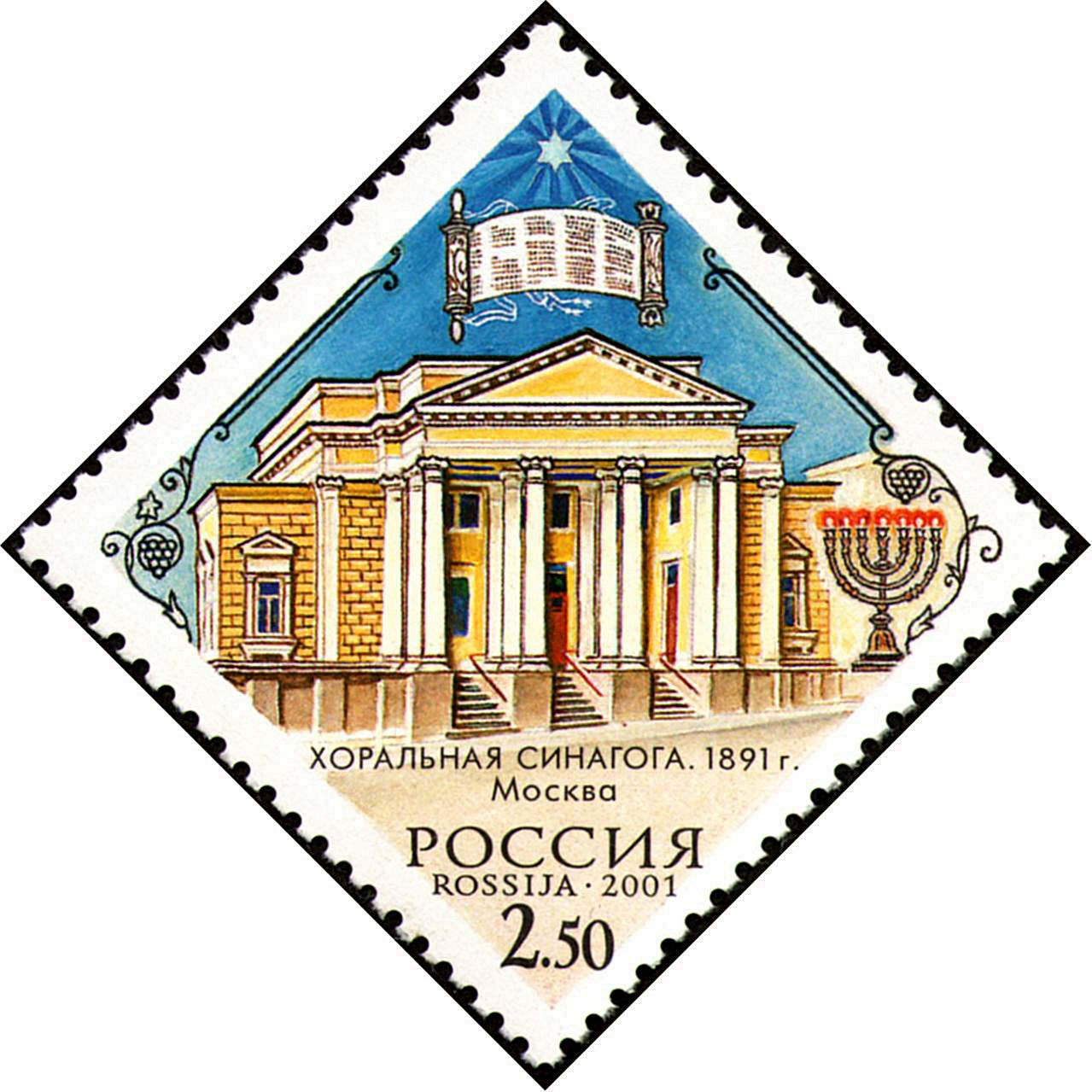 Religious buildings of Russia. Judaism. The Moscow Choral Synagogue. Architects Semeon Eibuschitz, Sergey Rodionov, and Roman Klein. 1887–1891, completed in 1906. The stamp of Russia, 2.50 rubles, 12 July 2001, PTC Marka Catalogue No 696, Michel No 928, Scott No 6651. Coated paper. Offset printing. Multicoloured. Perforation: comb 11½. Size of the stamp: 37×37 mm. Print run: 350,000.